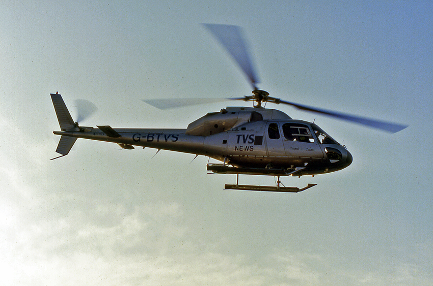 TVS News radio link helicopter. Registration G-BTVS. Aerospatiale AS355F Ecureuil 2. Scanned from a Fujichrome 35mm slide.